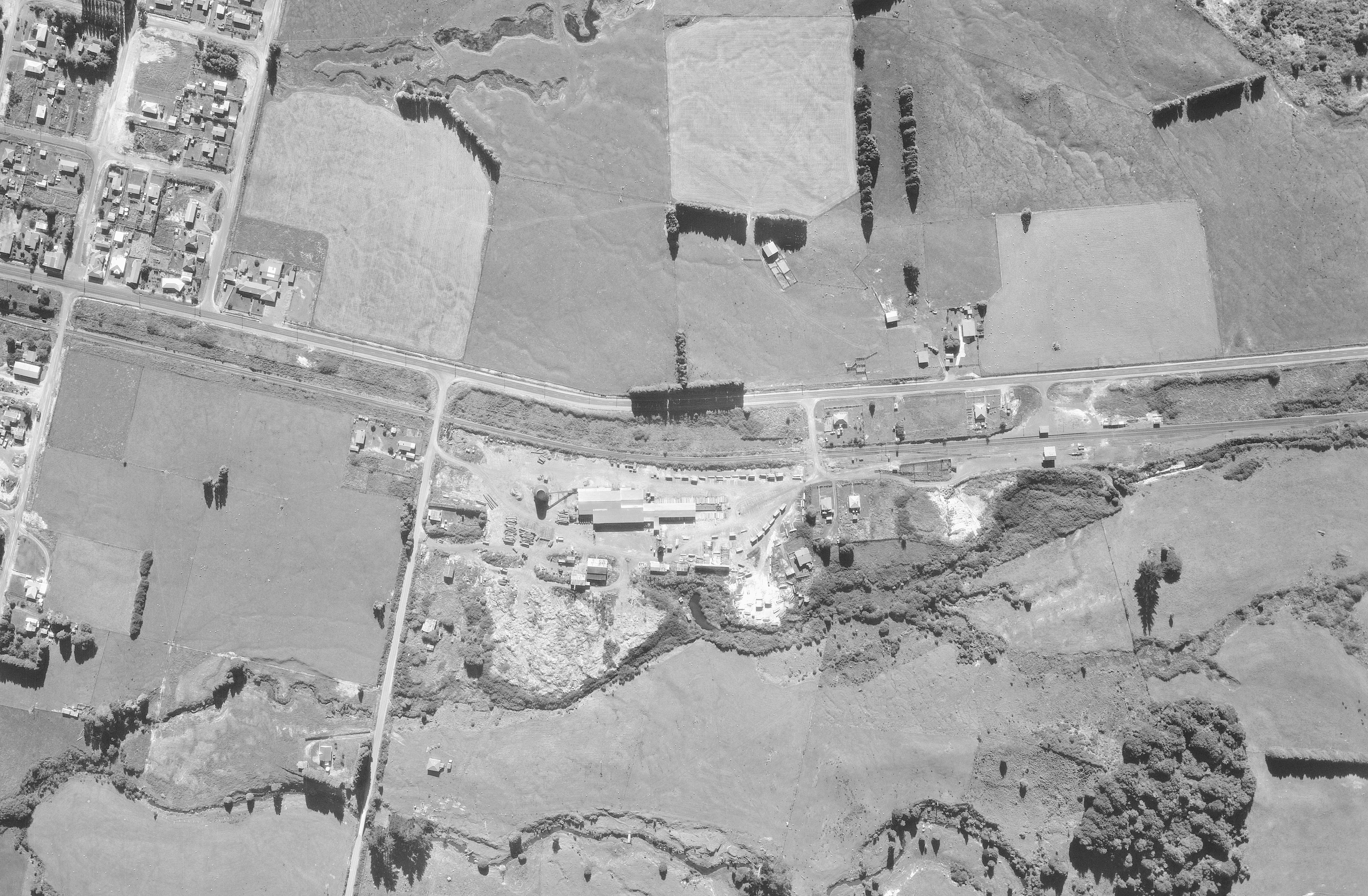 Ōwhango railway station - Retrolens Survey Number: SN3754